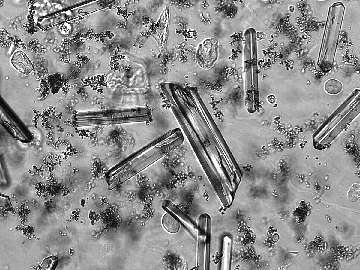 Struvite (magnesium ammonium phosphate / triple phosphate) crystals in a human urine sample with a pH of 9, as detected by an automated urinalysis system. Along with them; abundant amorphous phosphate crystals, several squamous and non-squamous epithelial cells and a few leukocytes can be observed.